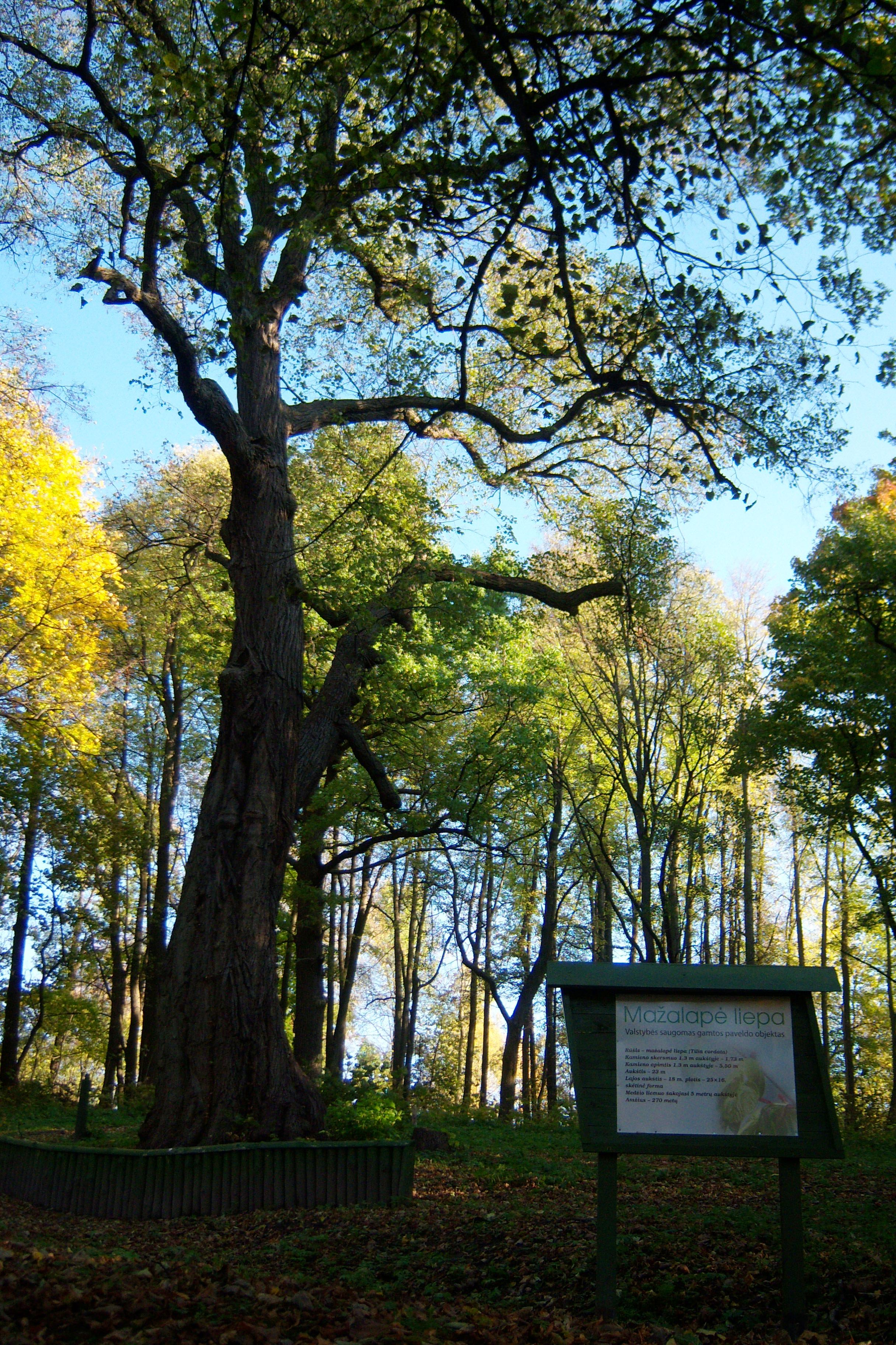 Small-leaved lime (tilia cordata) in Vytautas Park, Kaunas, Lithuania